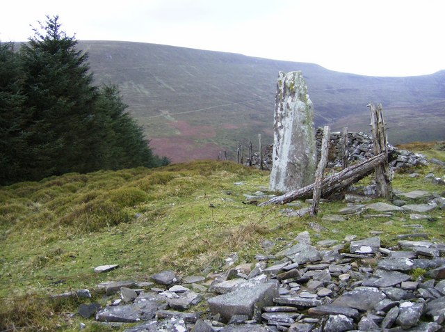 Maen Llwyd A good example of a standing stone. More details are available on this fascinating site